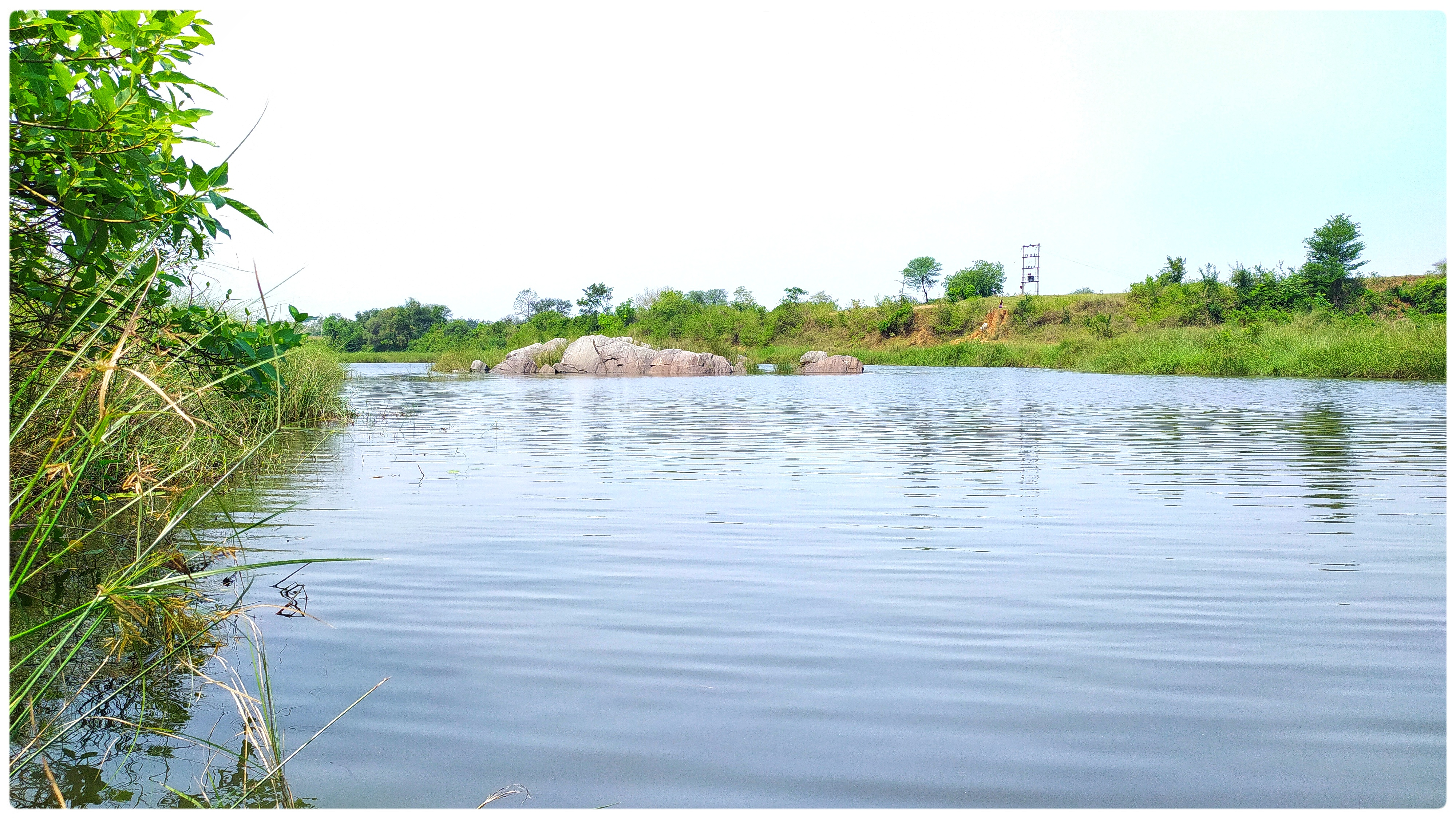 Sundar River-2